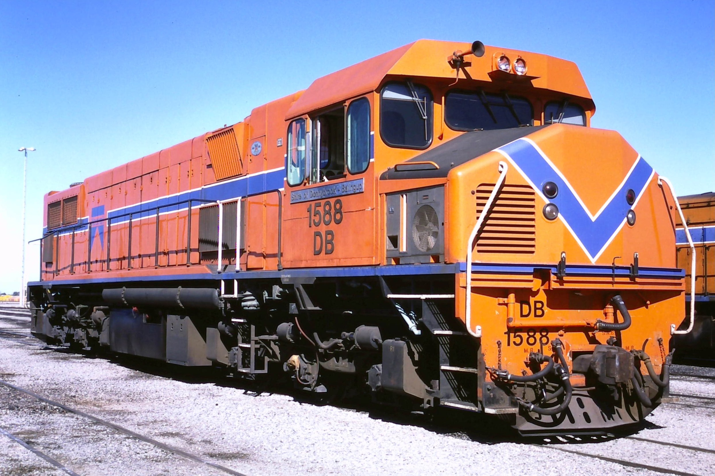 Portrait of Western Australian Government Railways (WAGR) DB class diesel-electric locomotive no DB1588 Shire of Donnybrook-Balingup, in Westrail orange and blue livery, at Forrestfield Yard, Western Australia. Kodachrome slide converted by Kaiser Baas Photo Maker Pro into a digital image.